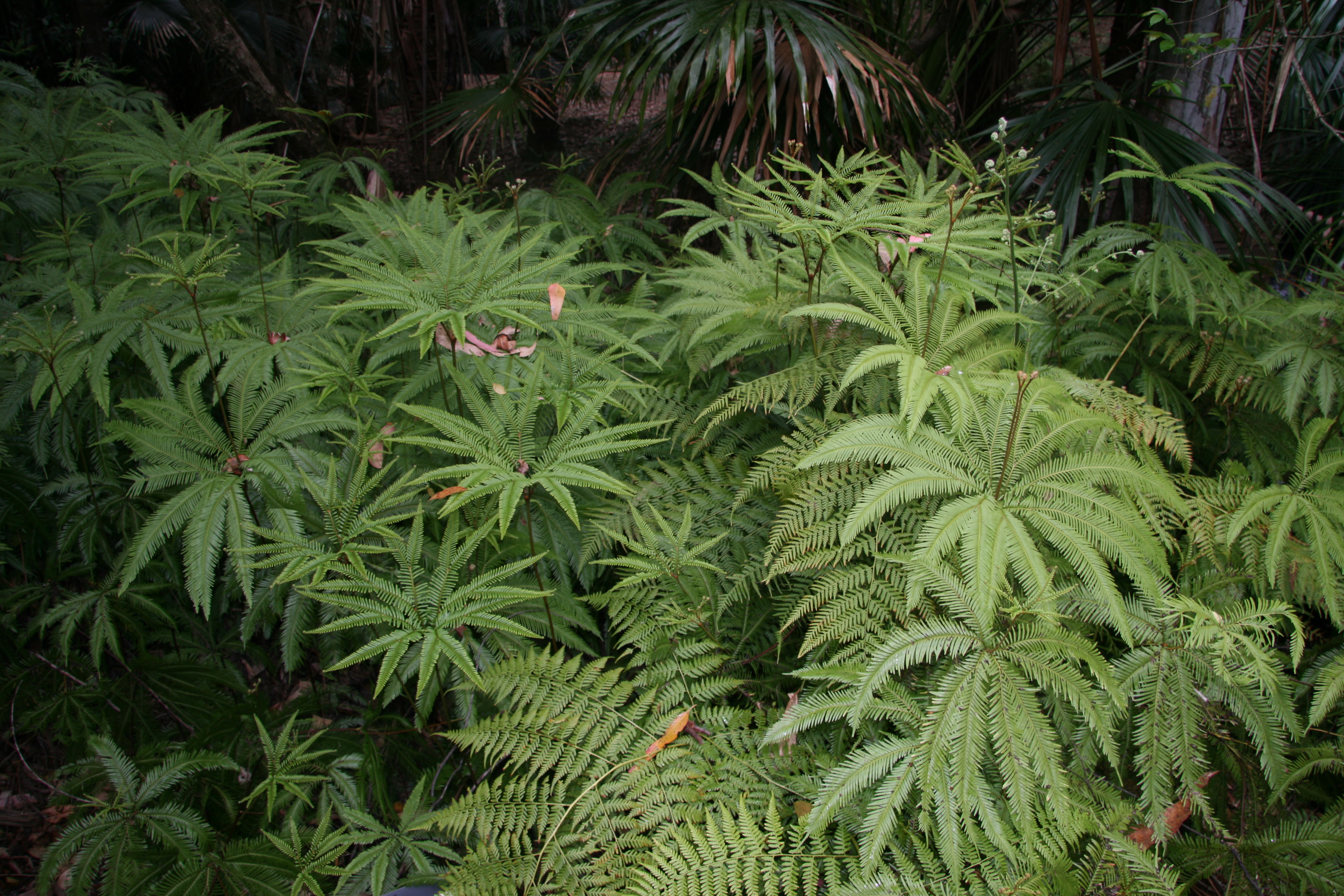 Sticherus flabellatus, Maroochy Regional Bushland Botanic Gardens